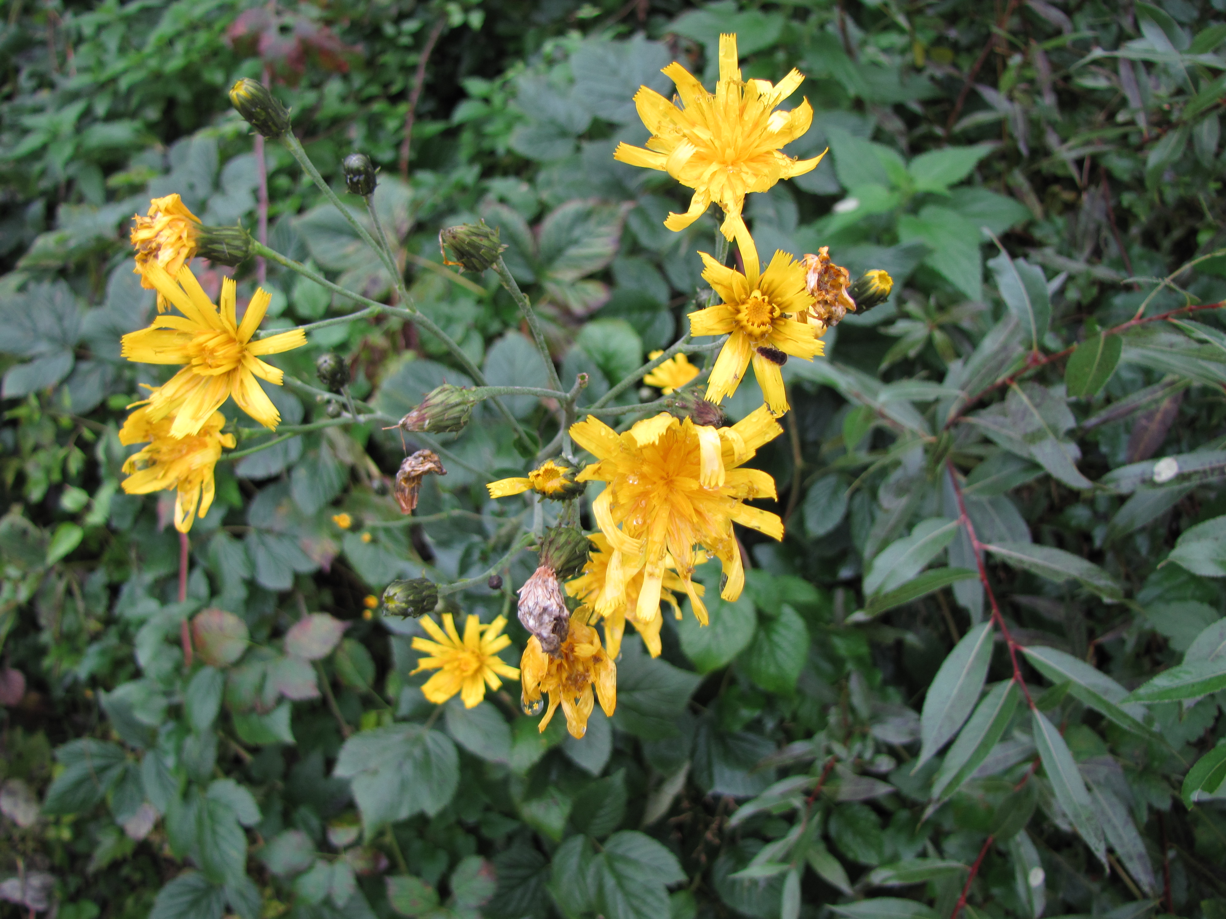 Crepis pulchra in the vicinity of Bosilegrad (SE Serbia). Српски (ћирилица): Crepis pulchra у близини Босилеграда.